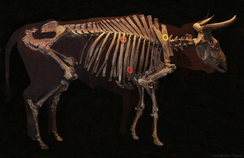 The aurochs. This aurochs is from around 7500 BC and is one of two very well preserved aurochs sceletons found in Denmark. The Vig-aurochs can be seen at The National Museum of Denmark. The circles indicate where the animal was wounded by arrows.